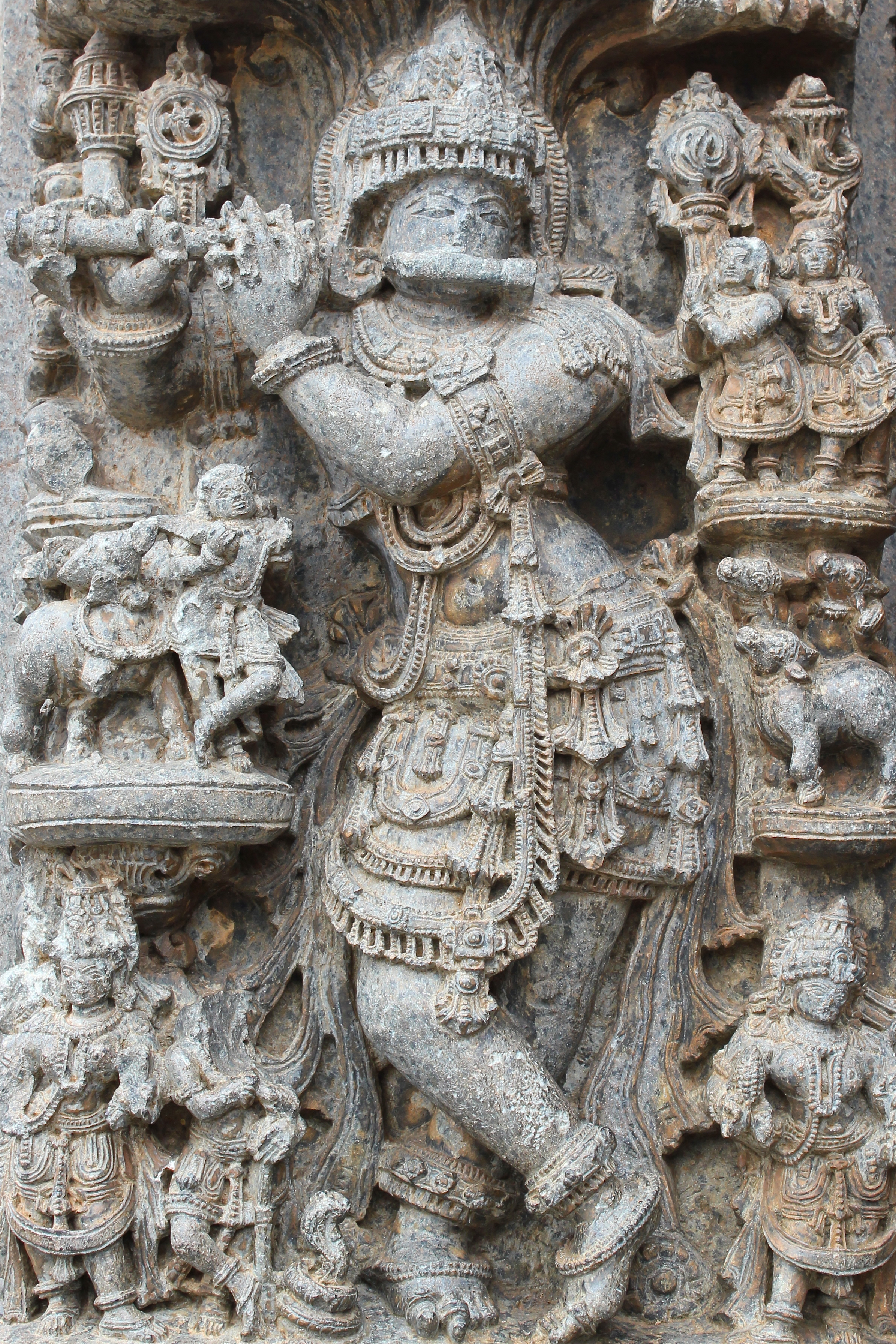 Chennakesava temple at Somanathapura, Karnataka, India. Wonderful example of Hoysala architecture of the 13th century. What isn't quite so nice is the desecration of idols by marauding invaders. Sep 2013.